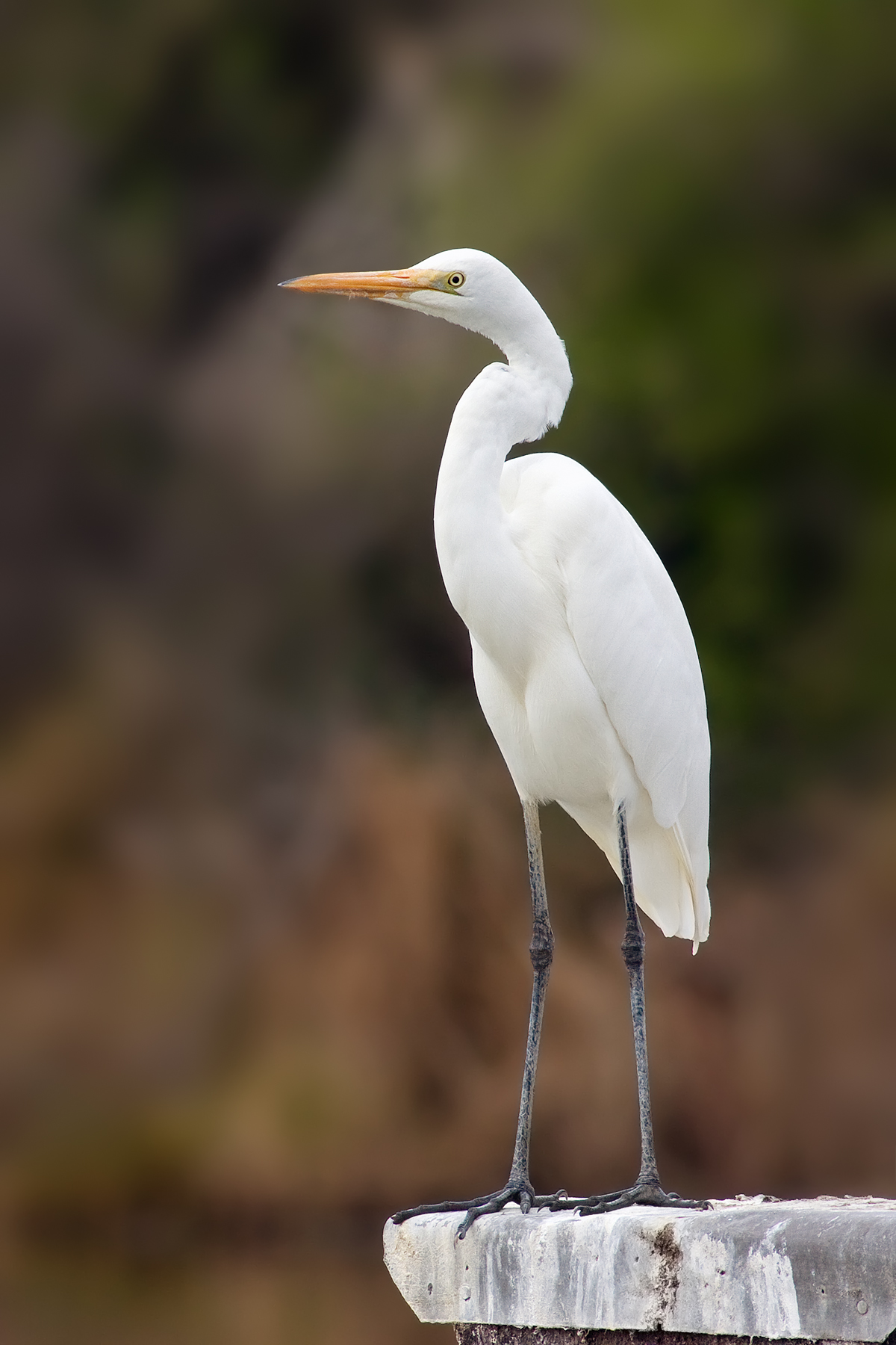 Eastern Great Egret (Ardea modesta), Gould's Lagoon, Tasmania, Australia